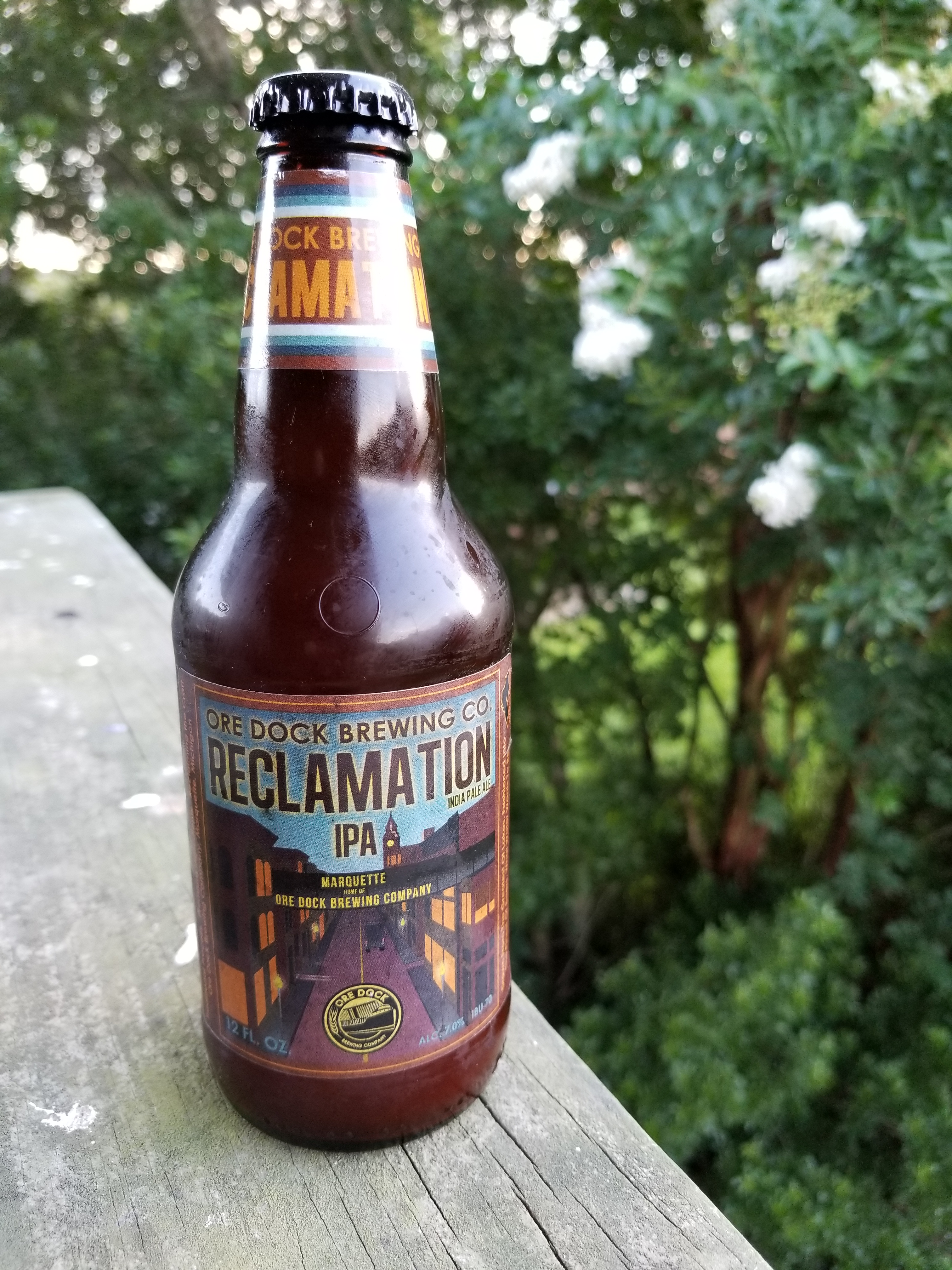 A bottle of Ore Dock Brewing Company's flagship Reclamation beer.